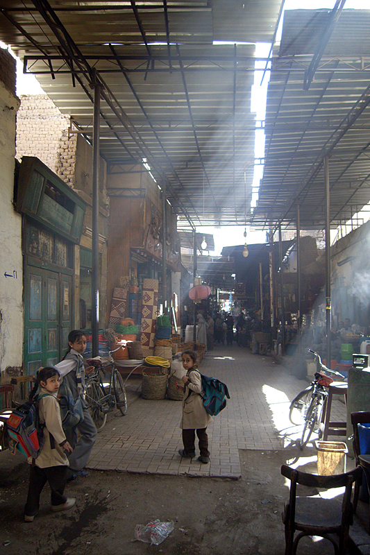 Market (Suq), Asyut, Egypt